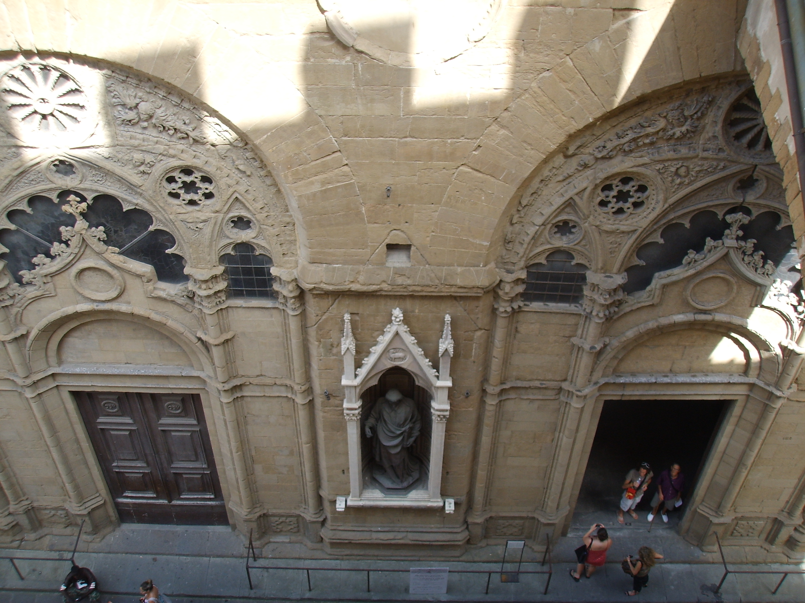 Orsanmichele church, view from upstairs, in Florence, Italy, Via dell'Arte della Lana (St. Stephan by Ghiberti).